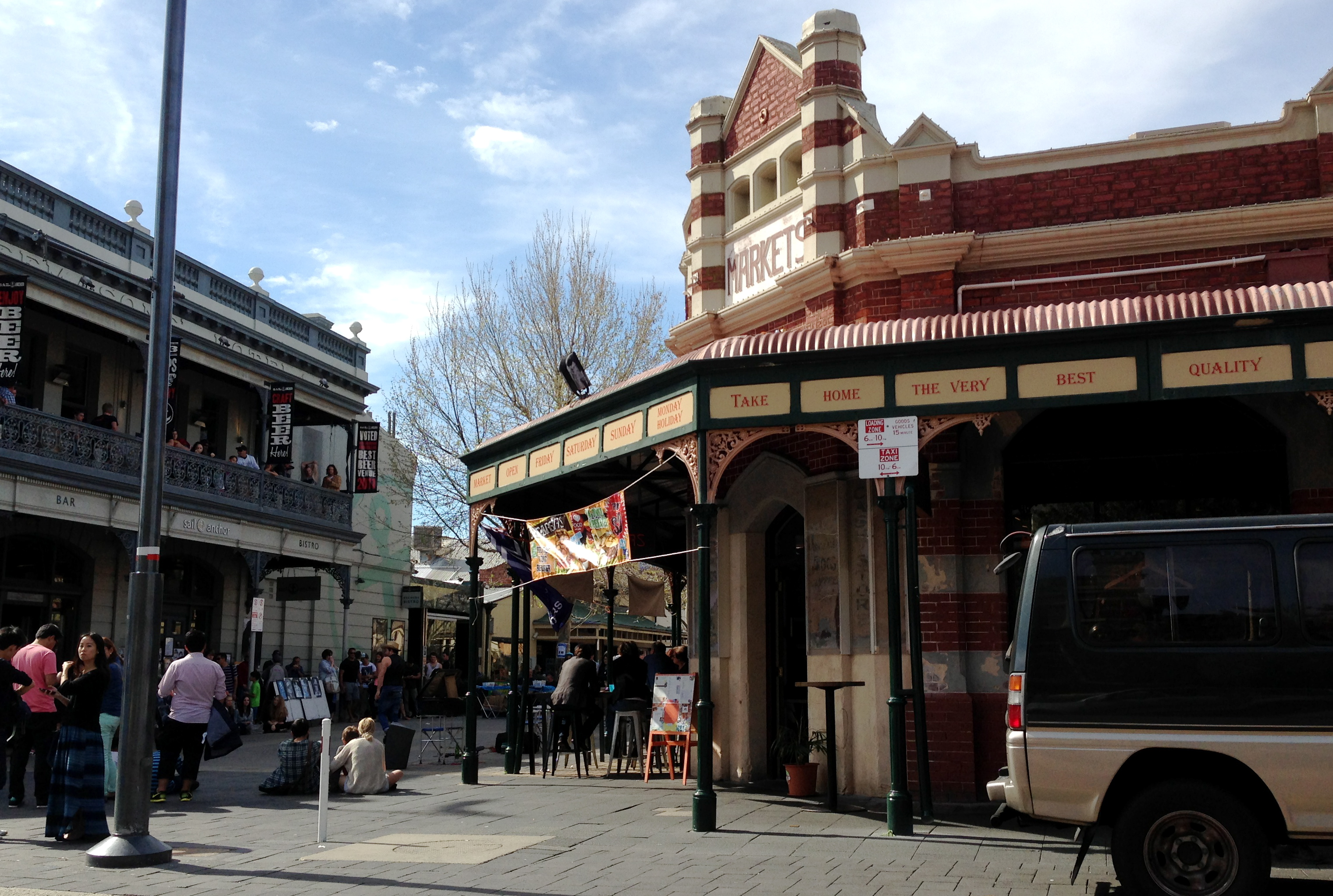 Fremantle Markets north west corner of complex at the corner of South Terrace and Henderson Street, Fremantle, Western Australia